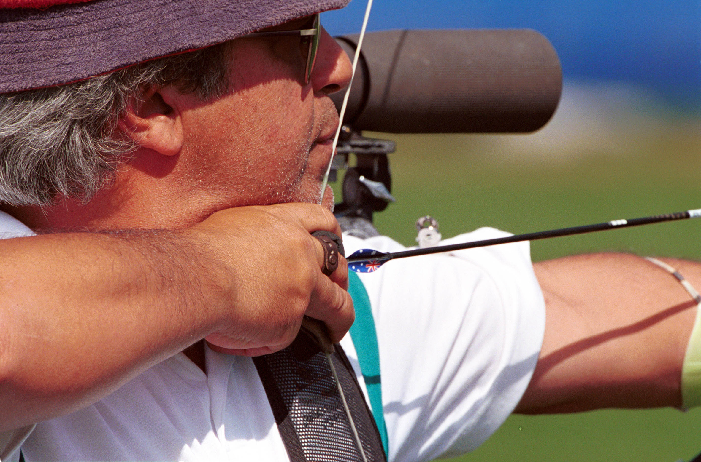 Australian archer Tony Marturano shoots during 2000 Sydney Paralympic Games match